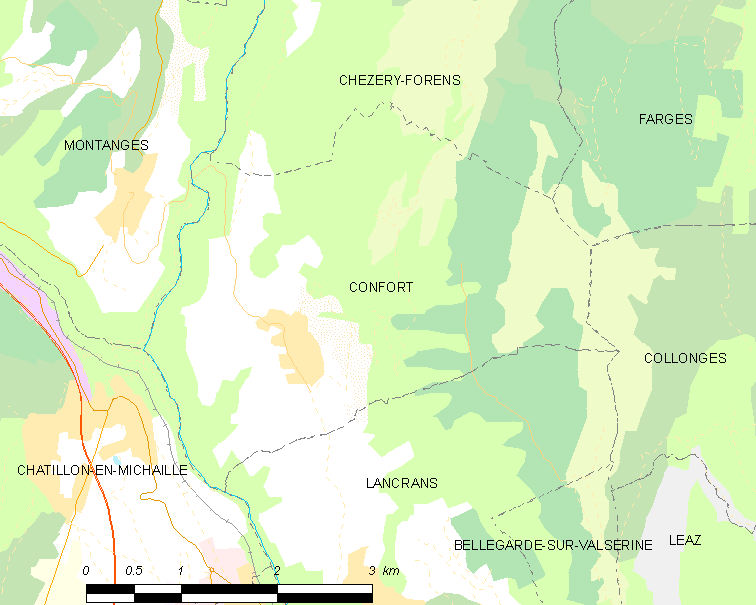 Map of French commune: Confort Map commune FR insee code 01114.png